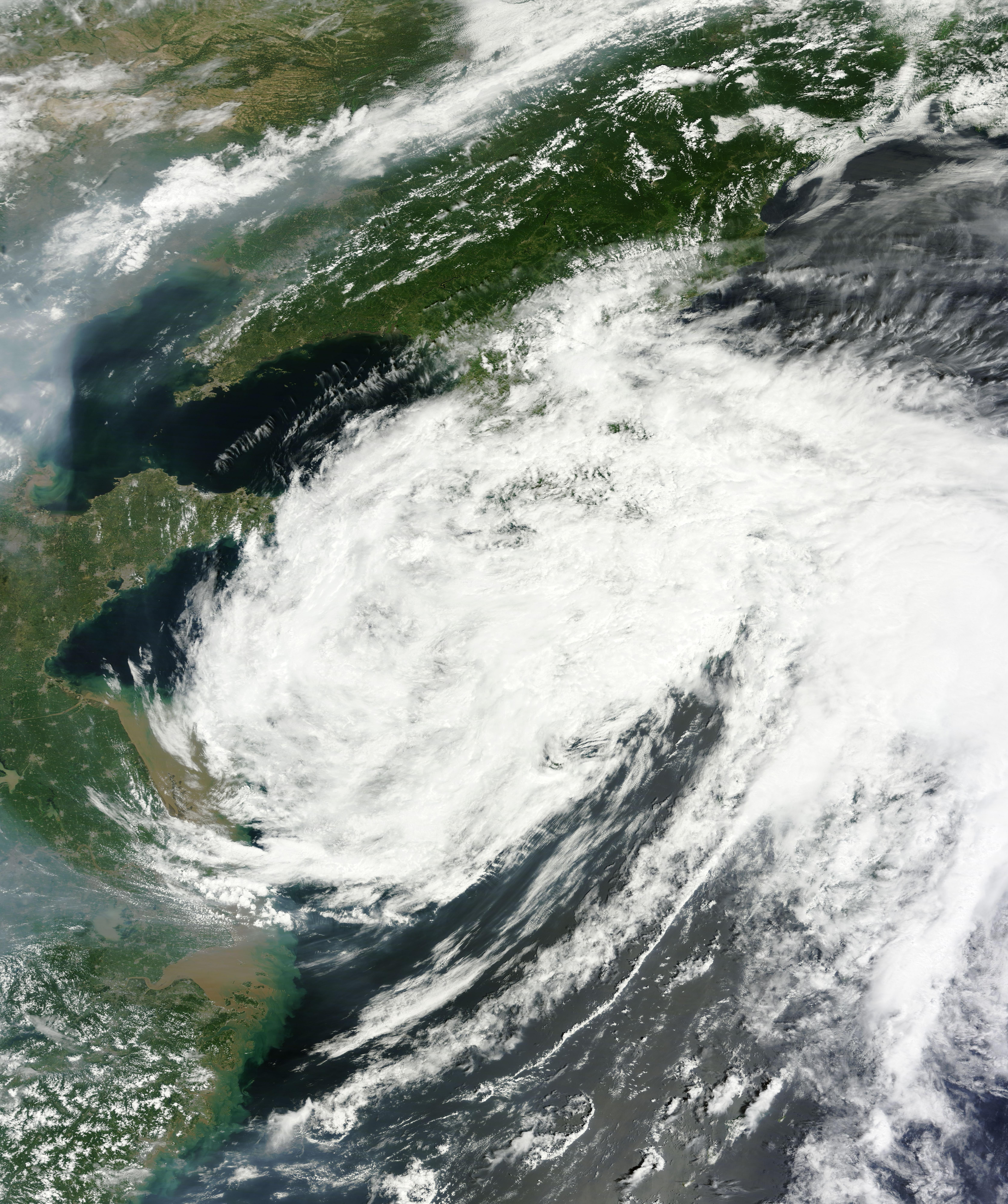 Tropical Storm Nakri(12W) on August 3,2014